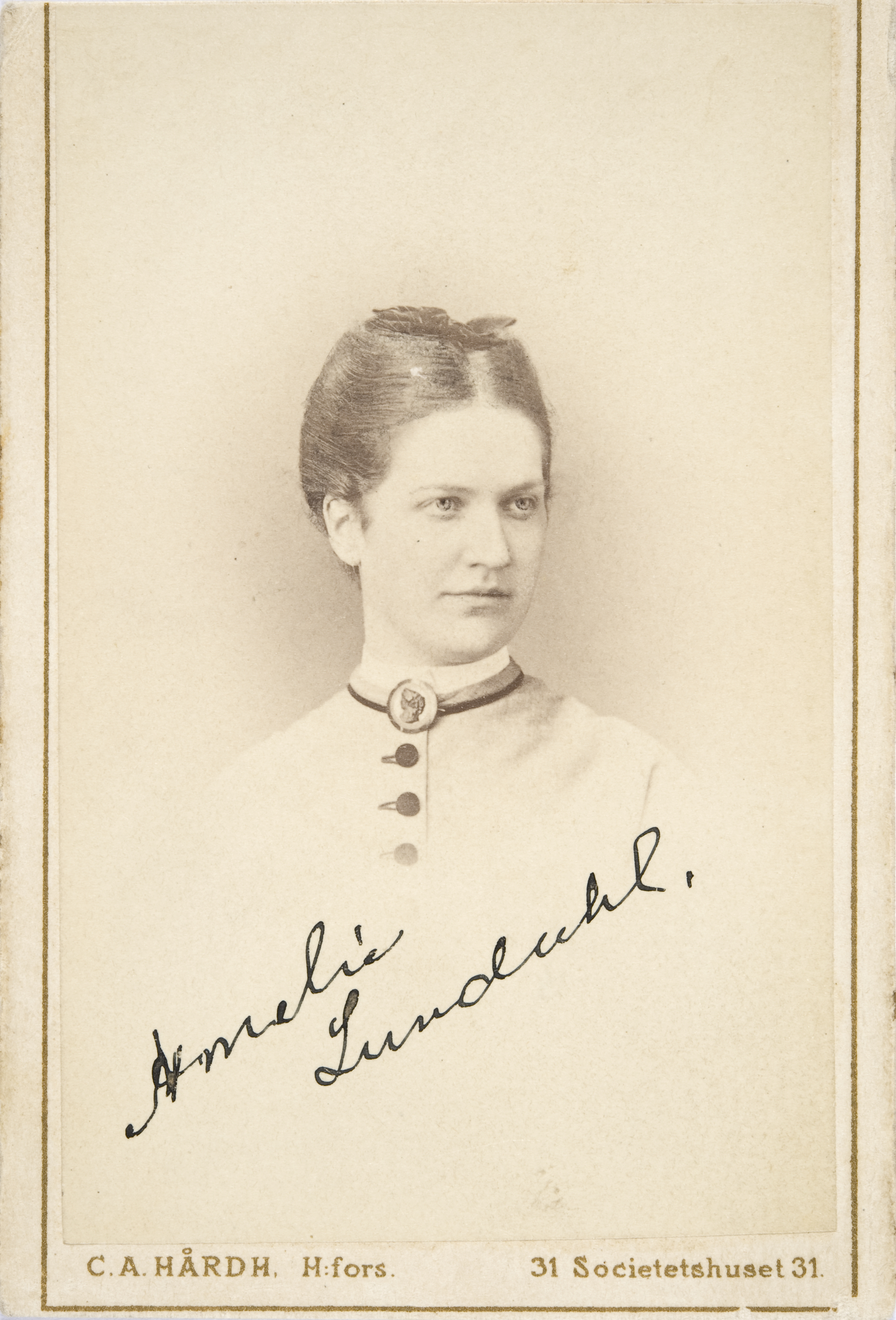 Amélie Helga Lundahl in the early 1870s